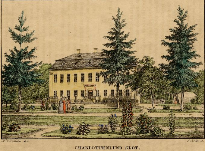 Charlottenlund Slot North of Copenhagen, Denmark